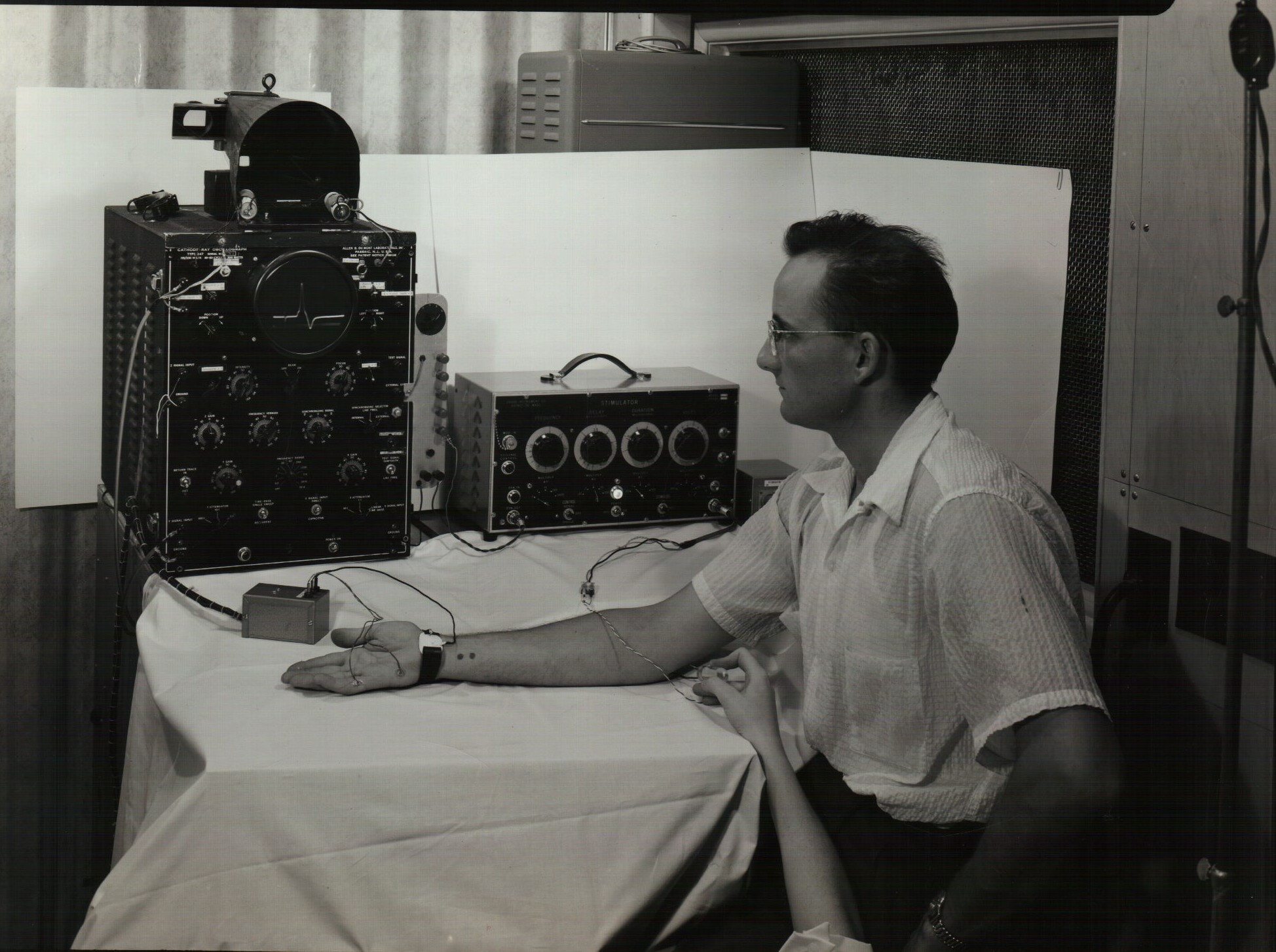 Research began at the Mayo Clinic in Rochester, Minnesota under the guidance of Dr Edward H. Lambert, MD, PhD (1915–2003) in the early 1950s. With the assistance of his Research Technician, Ervin L Schmidt, a self taught electrical engineer, they developed a machine that could be moved from the EMG Lab, and was relatively easy to use. As oscilloscopes had no “store” or “print” features at the time, a Polaroid camera was affixed to the front on a hinge. It was synchronized to photo the scan. Fellows studying at Mayo soon learned that this was a tool they wanted, too. As Mayo has no interest in marketing their inventions, Mr. Schmidt went on to continue to develop them in his basement for decades, selling them under the name ErMel Inc.